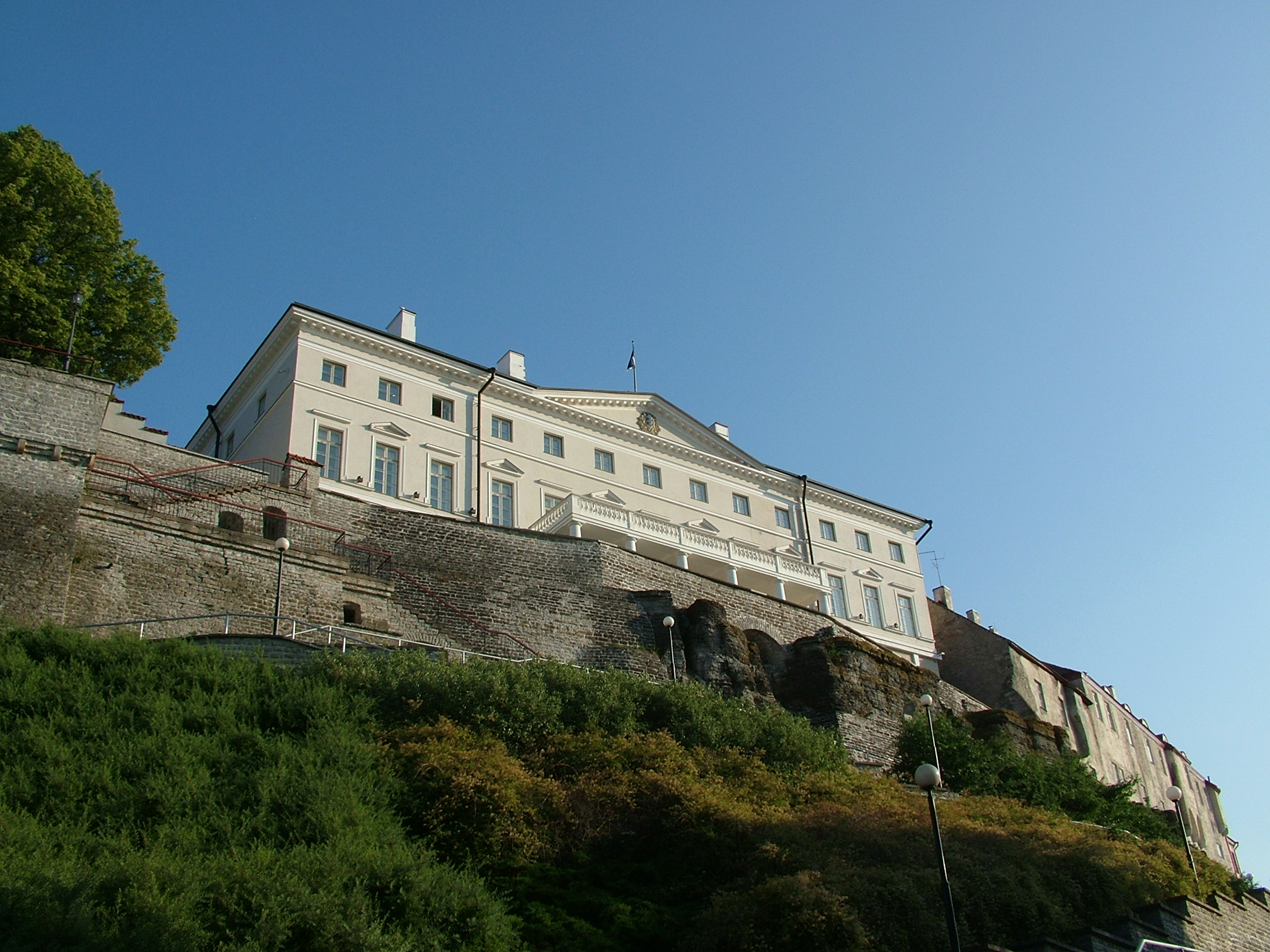 Building in Toompea, Tallinn, Estonia.